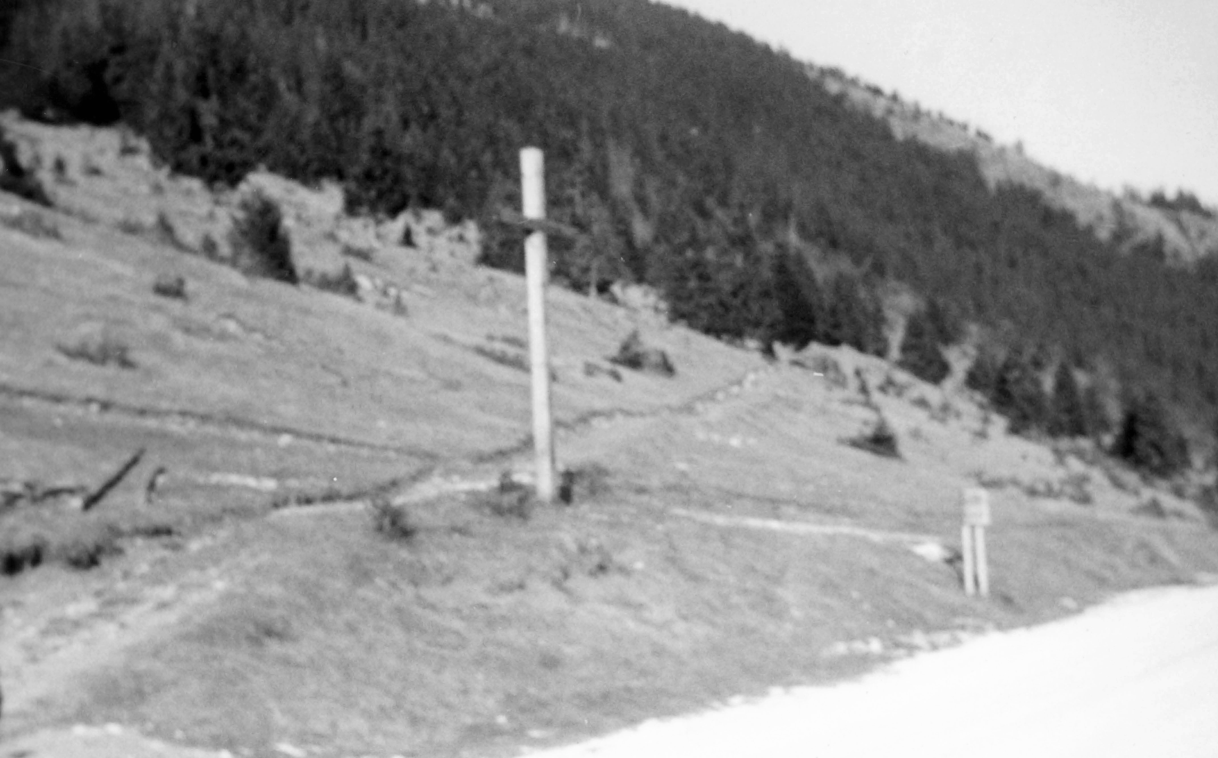 Col du Corbier, Haute-Savoie, France, 1961, before the ski resort was created